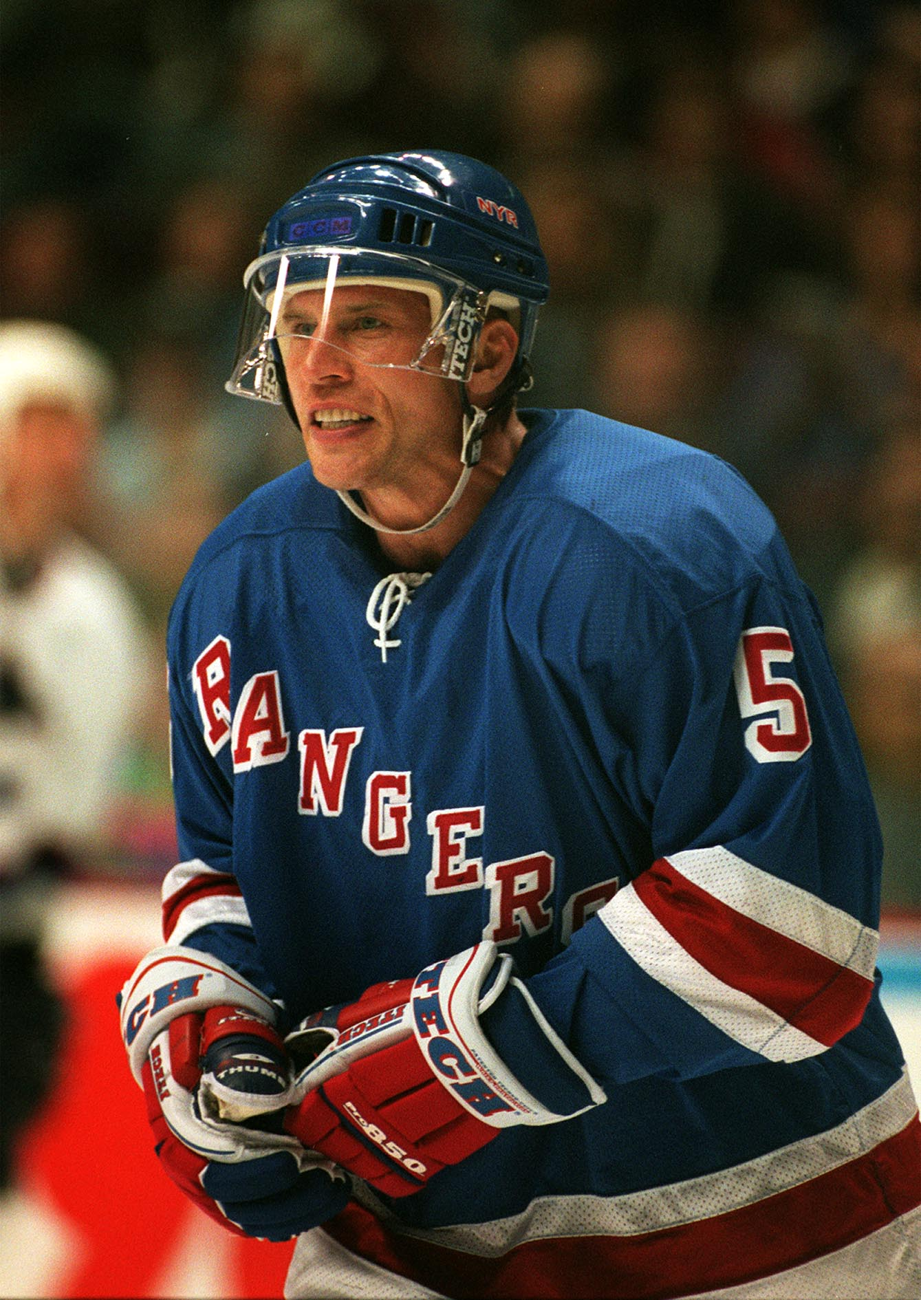 Ulf Samuelsson, playing for the NHL's New York Rangers, in Vancouver.